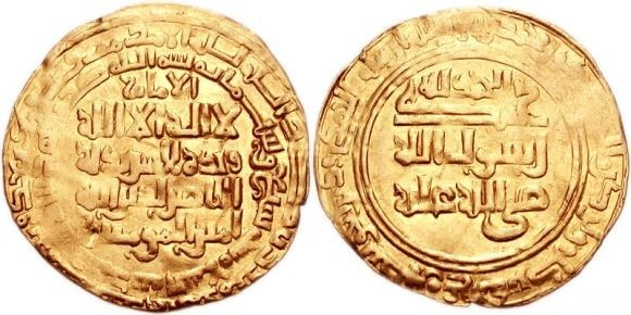 Dinar of Al-Nasir 607h